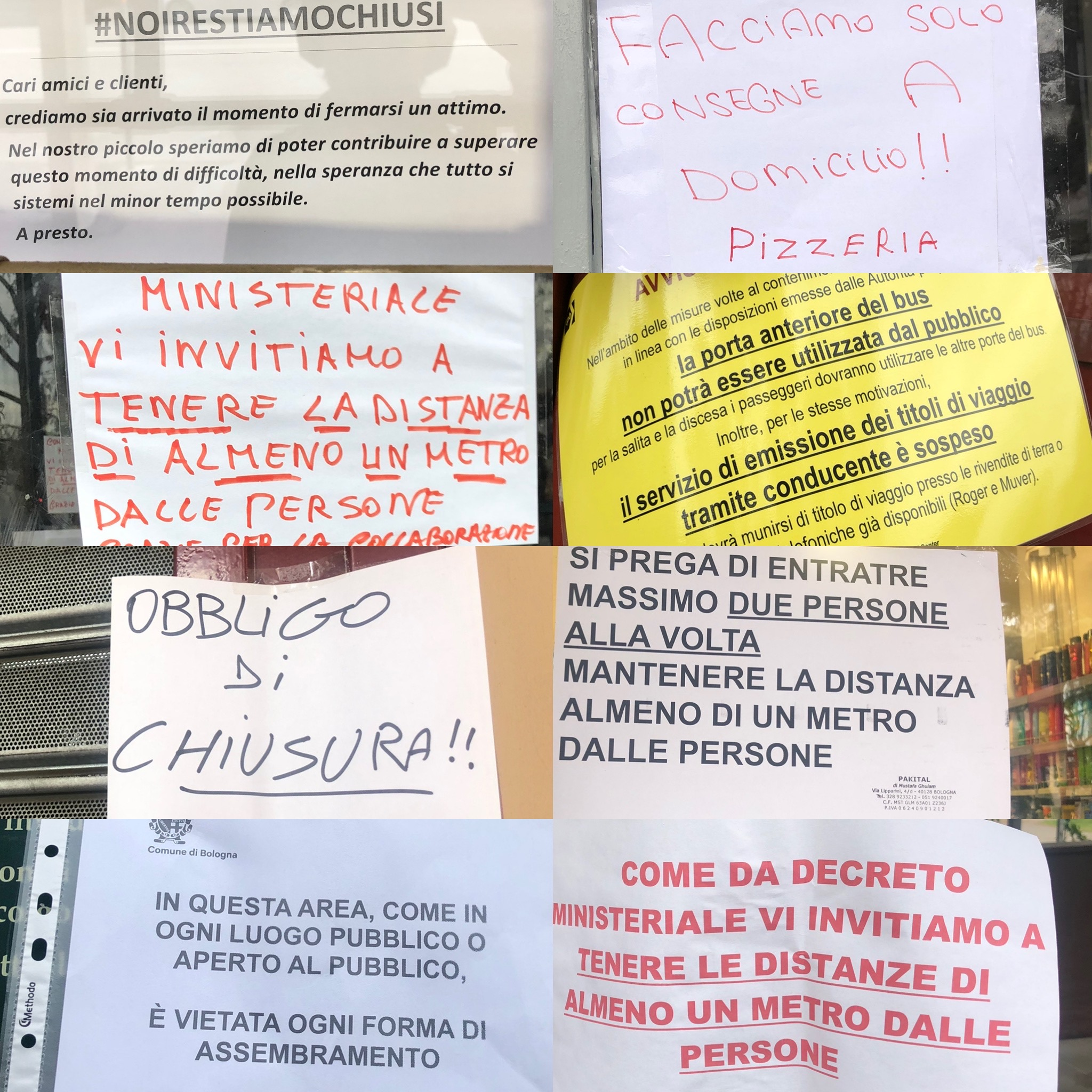 Translation, clockwise from top-left: Dear friends and clients, we believe that the time has arrived to close for a period. We this we hope to make our little contribution to overcome this moment of difficulty, in the hope that all will get back to normal as fast as possible. See you soon. We only do home delivery!! Pizzeria. The front door of the bus may not be used by the public... the service of purchasing tickets from the bus driver is suspended.... We request only two people enter at a time. Maintain a distance of at least a metre between people. As per the ministerial decree we invite you to remain at least one metre apart from each other. In this area, as in all public space or area open to the public, it is forbidden to form any kind of group. OBLIGED TO CLOSE!! Ministerial decree. We invite you to maintain a distance of at least one metre between people. Thank you for your collaboration.